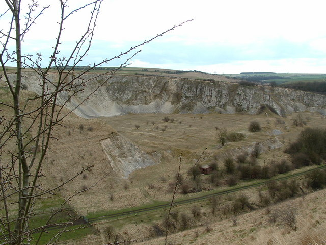 View of Burdale Quary Burdale in North Yorkshire